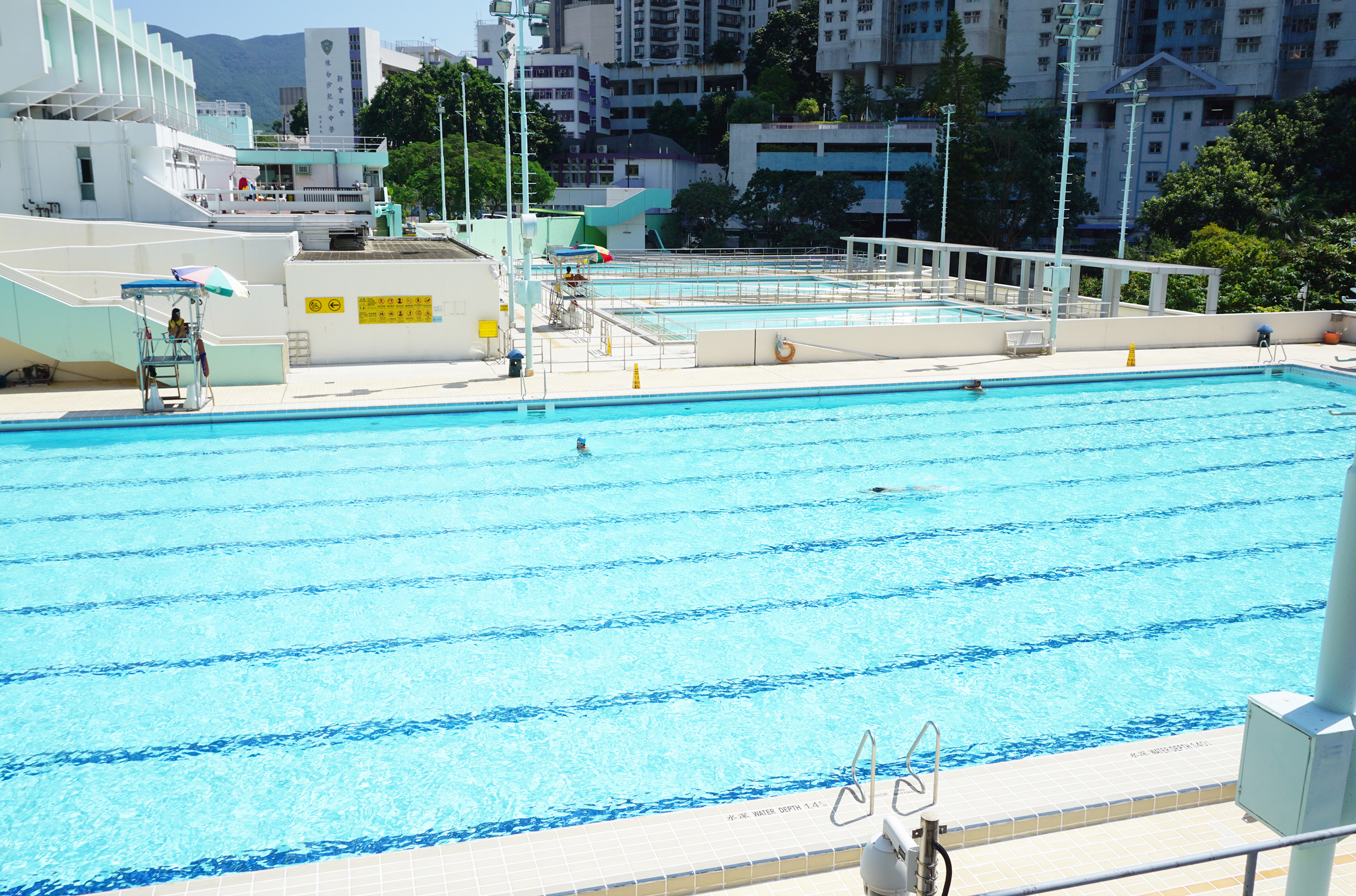 Pao Yue Kong Swimming Pool in Wong Chuk Hang, Hong Kong.